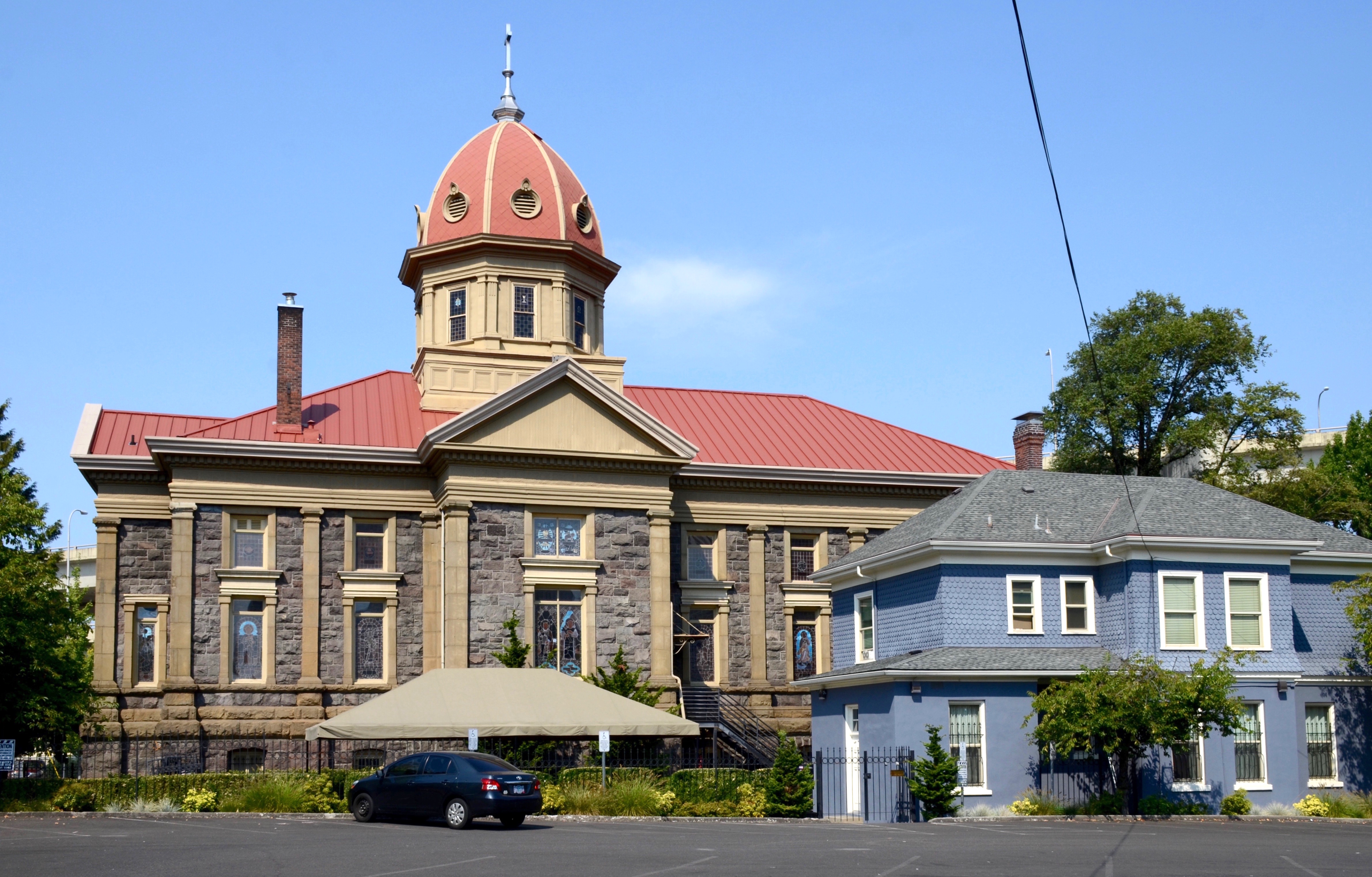 St. Patrick's Roman Catholic Church and Rectory (built 1889–91) at 1635 Northwest 19th Avenue, Portland, Oregon, are listed on the U.S. National Register of Historic Places. This view is from the south.